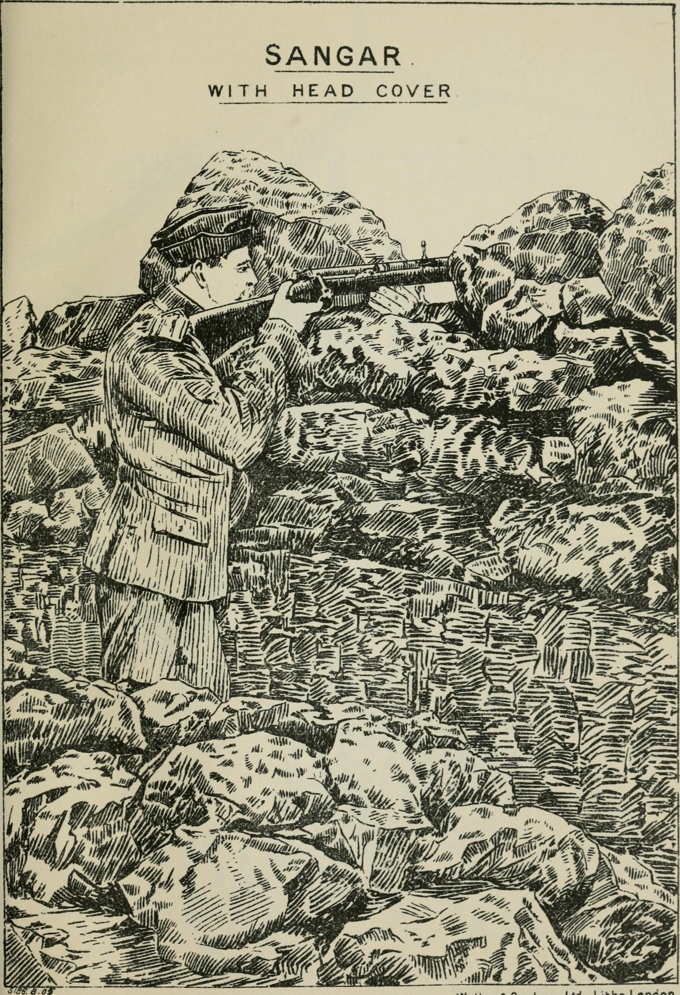 Title: Manual of military engineering Year: 1905 (1900s) Authors: Great Britain. War Office Subjects: Military engineering Publisher: London : Printed for H. M. Stationery off., by Harrison and sons Text Appearing Before Image: WelleriGraham *.* Li»t\o.London To foiLo^y pUf^ 38. Flrrfe ^0 Text Appearing After Image: VVcller* Graham.Ltd Litho.London Tlate 4i.